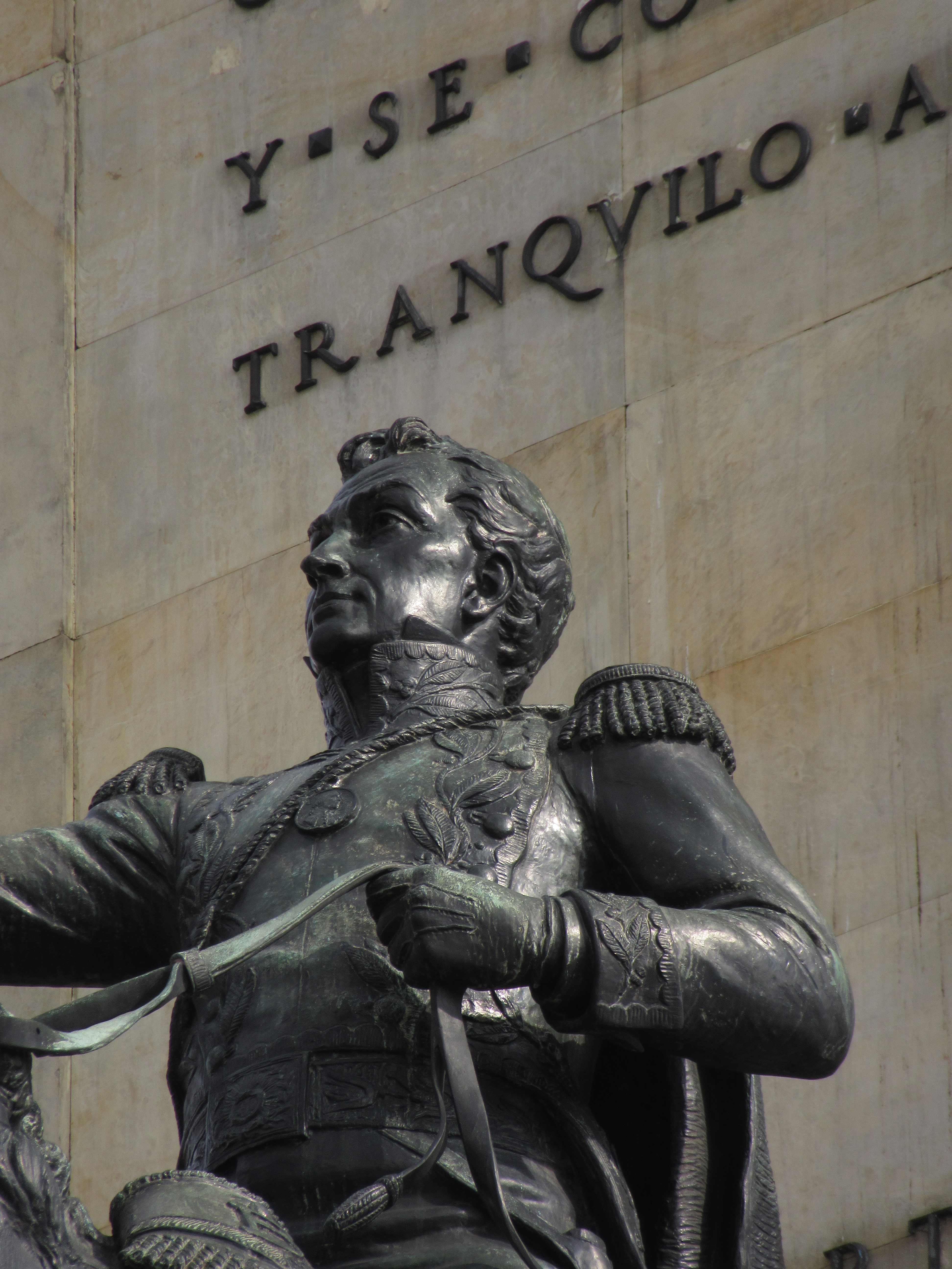 Bogotá